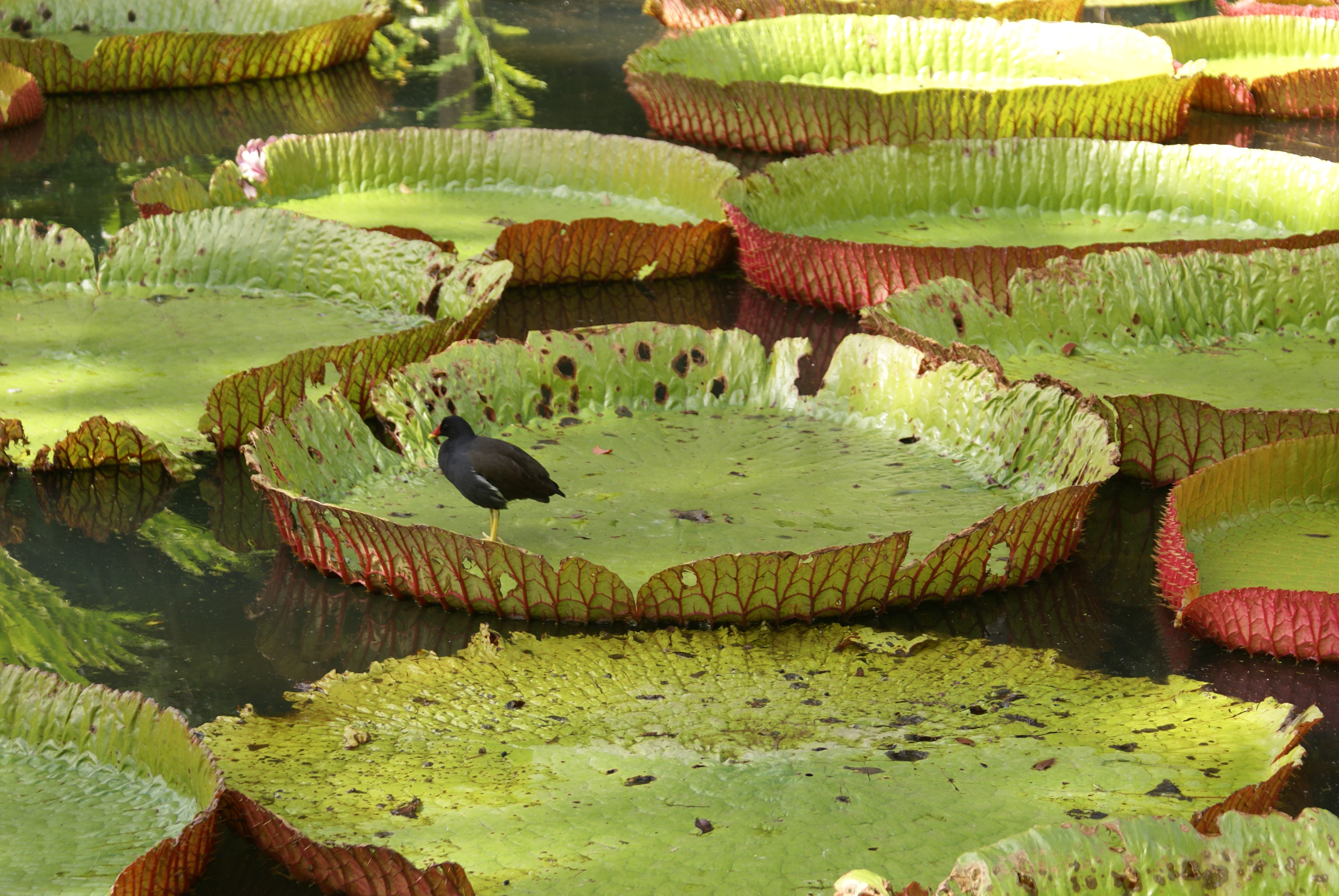 Gallinula chloropus on Victoria cruziana at Pamplemousses garden on Mauritius island